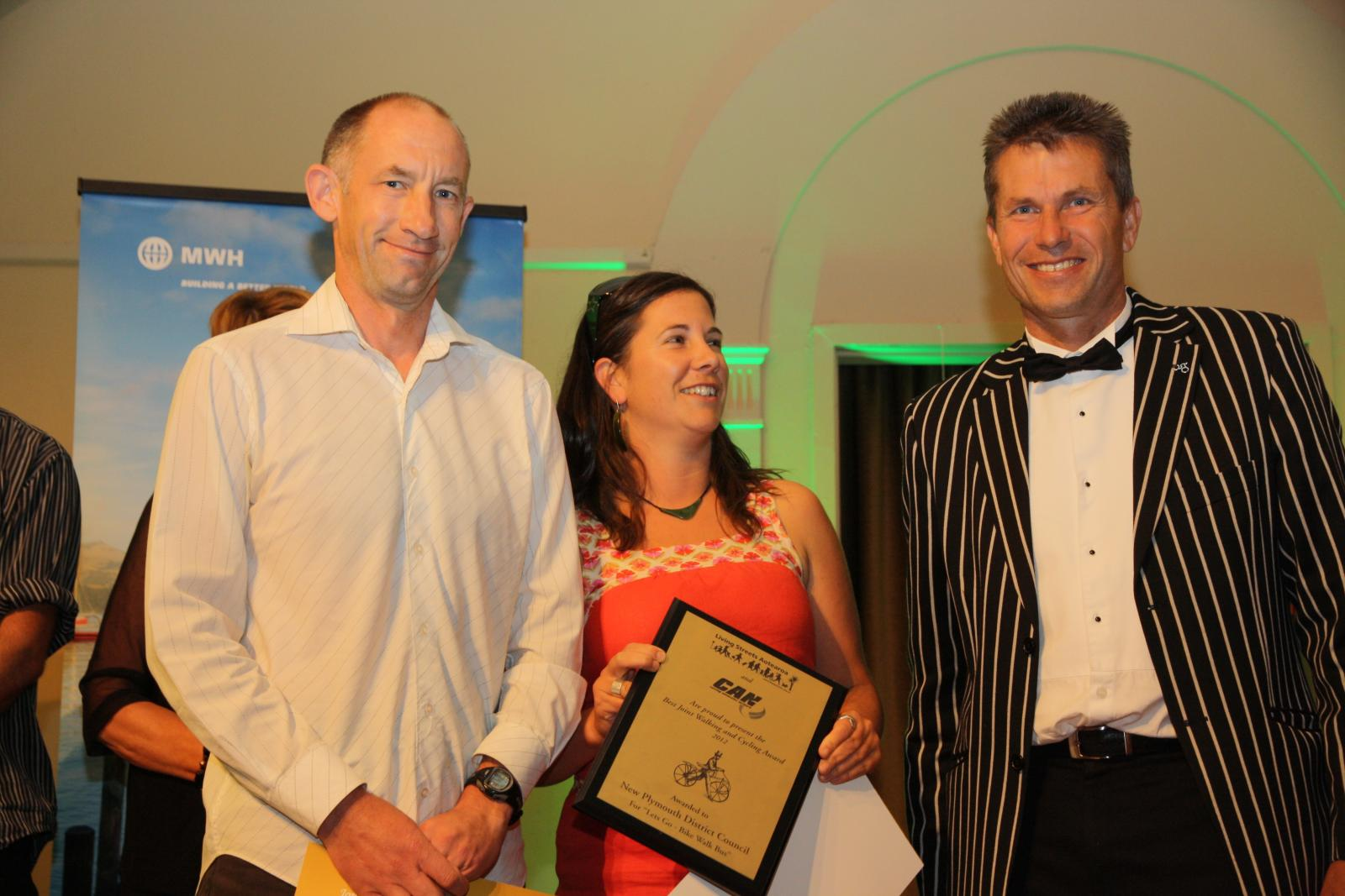 Presentation of the Joint Walking and Cycling Award; 2012 Cycle Friendly Awards and Walking Awards. From left: Carl Whittleston, Liz Beck (both New Plymouth District Council) and Chris Tremain (Associate Minister of Transport).